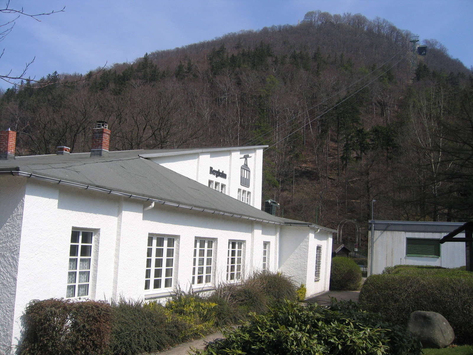 The cable car up the Burgberg from Bad Harzburg, Lower Saxony, Germany.